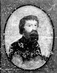 Ivan Tarasyevich Gramotin